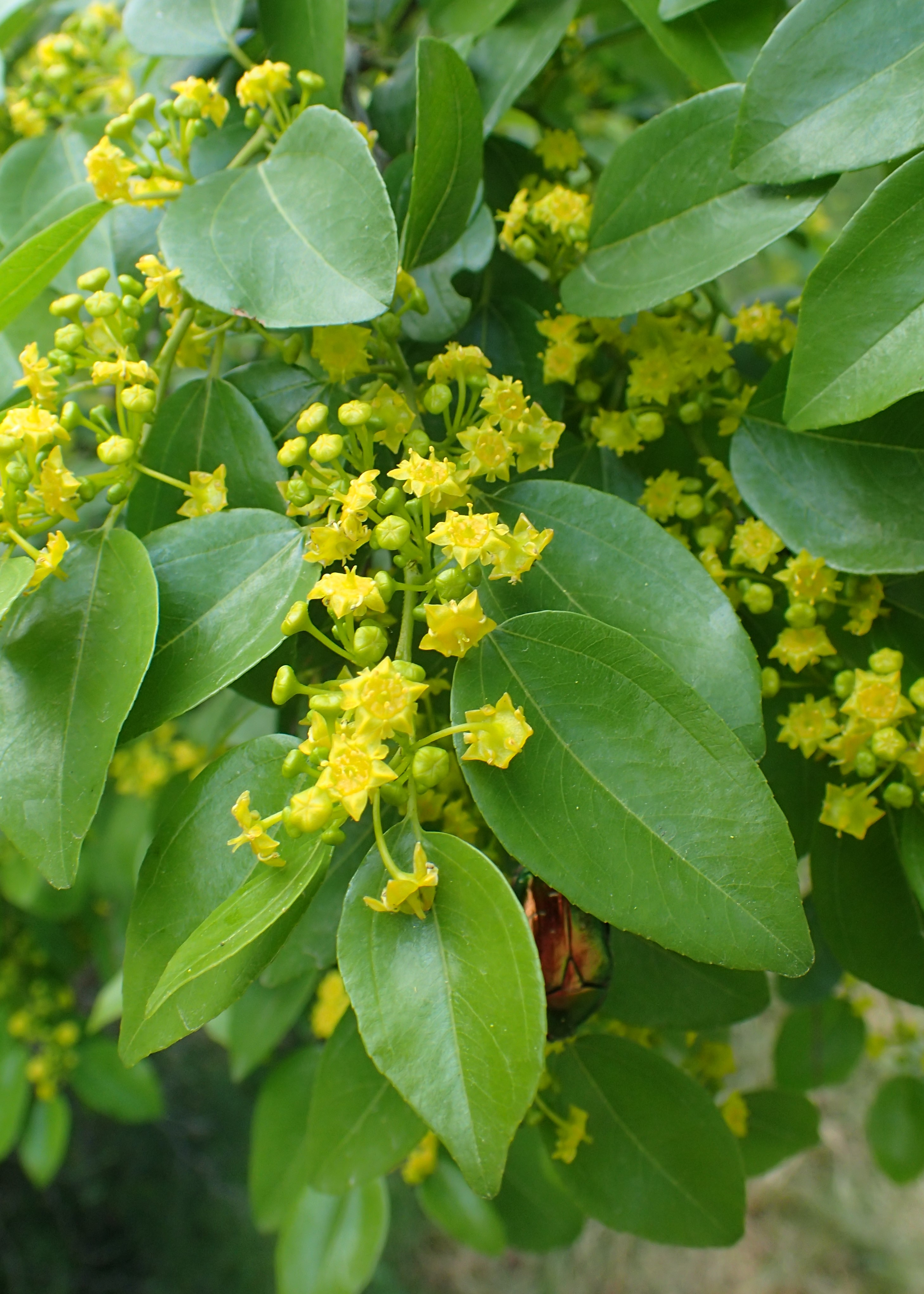 Paliurus spina-christi in Blagoevgrad, Bulgaria